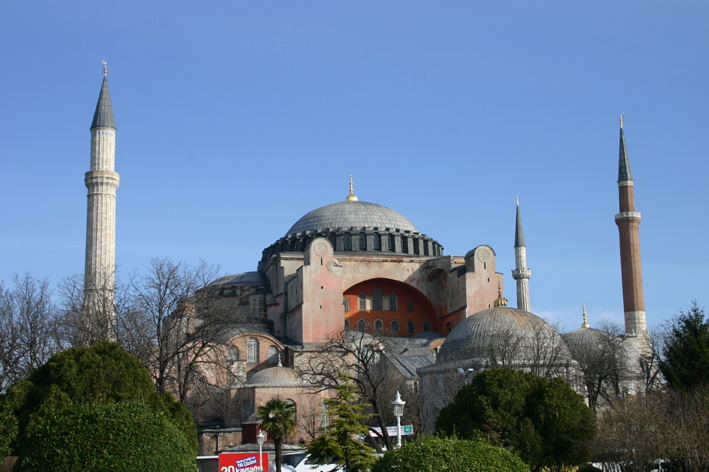 Hagia Sophia from South